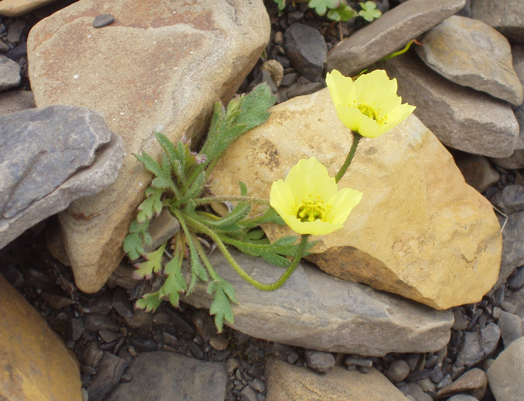 svalbard Poppy, yellow